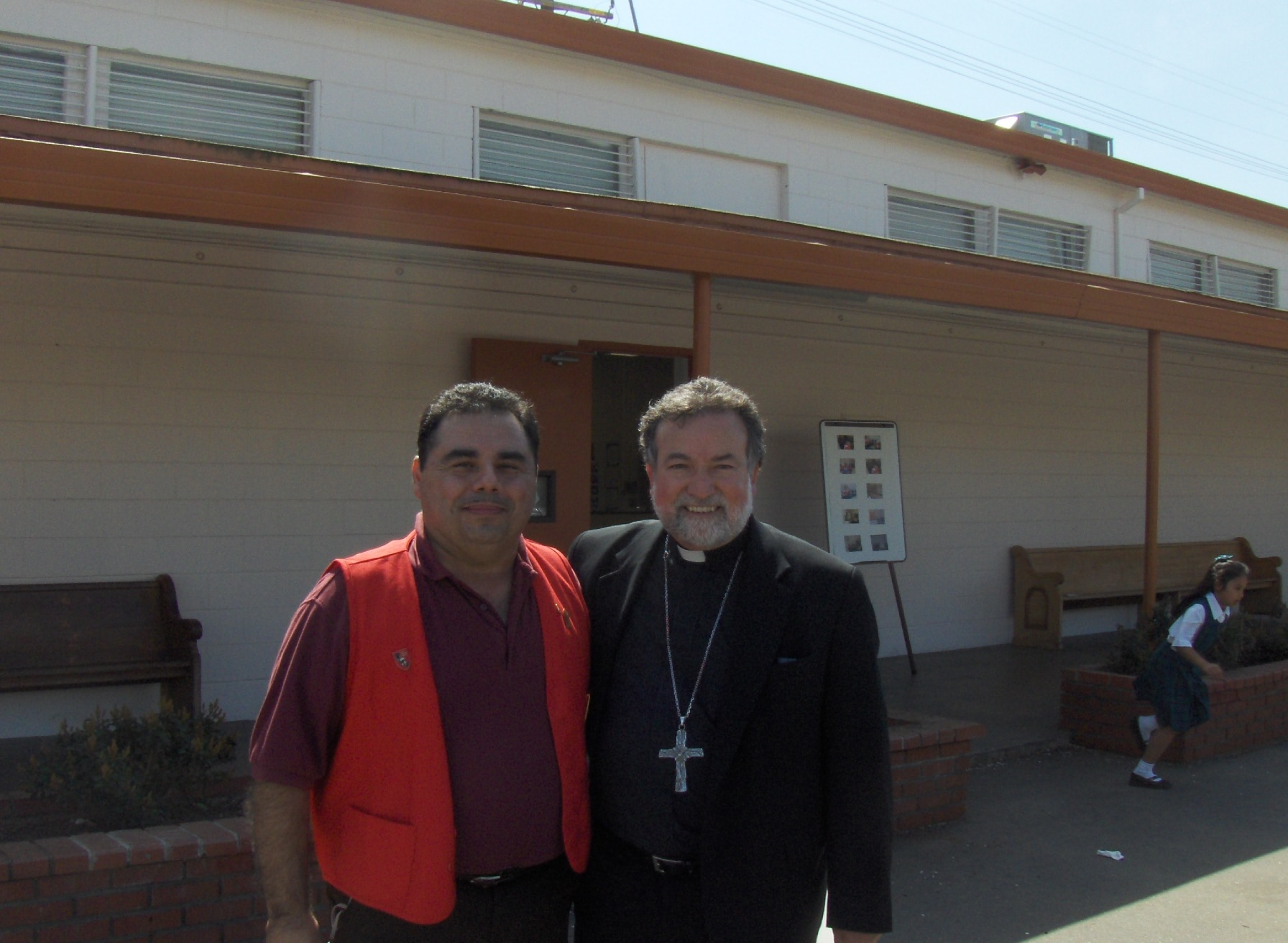 Jaime Soto with a Knight of Columbus after redecating St. Joseph School on March 19, 2008. The rededication took place on the 2008 feastday of St. Joseph in Sacramento, CA.